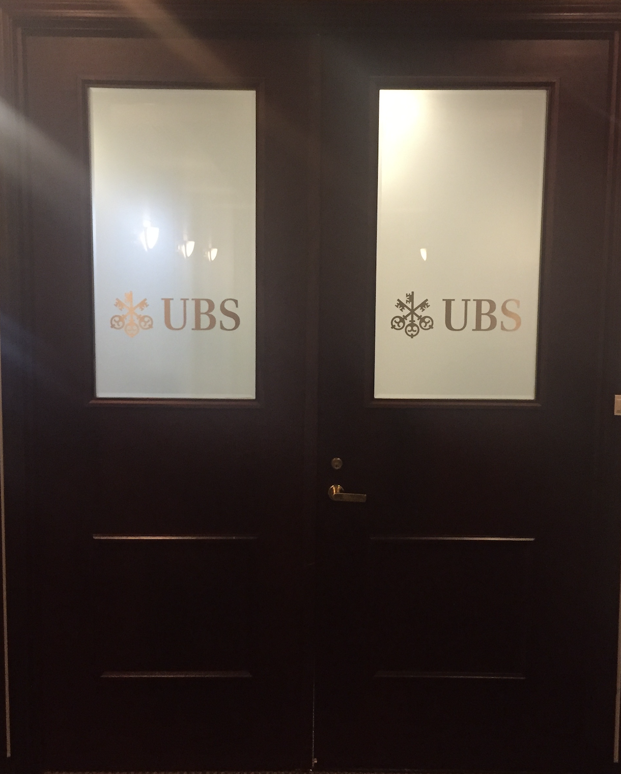 A reinforced (strike-plated) glass-wired locked door featuring off-set frosted glass at Swiss bank, UBS. The door serves as an entrance to a private wealth management office in Milan. The logo of the company is in silver.